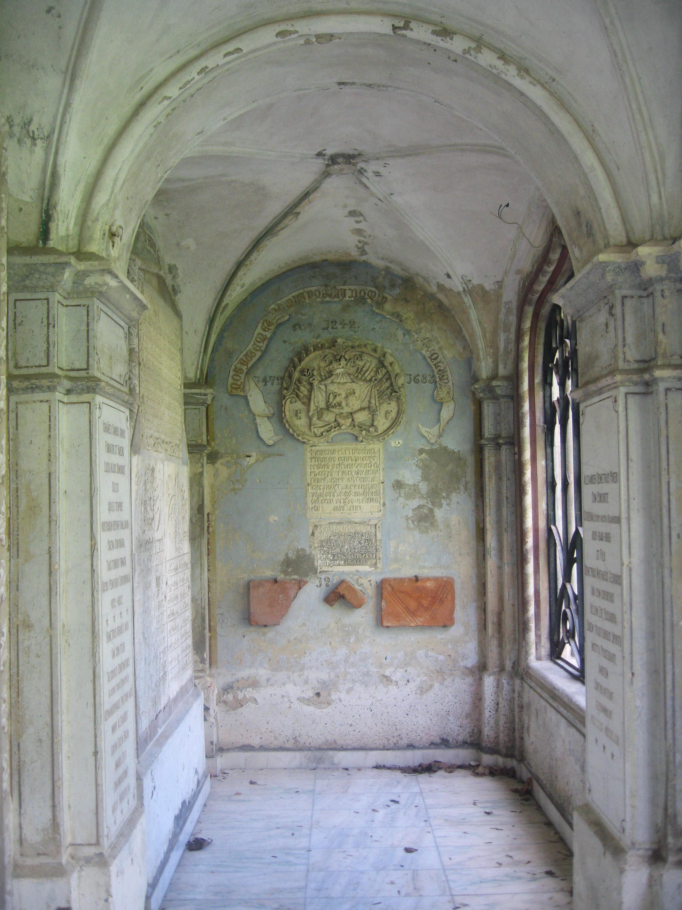 Sturdza Castle of Miclăuşeni 02